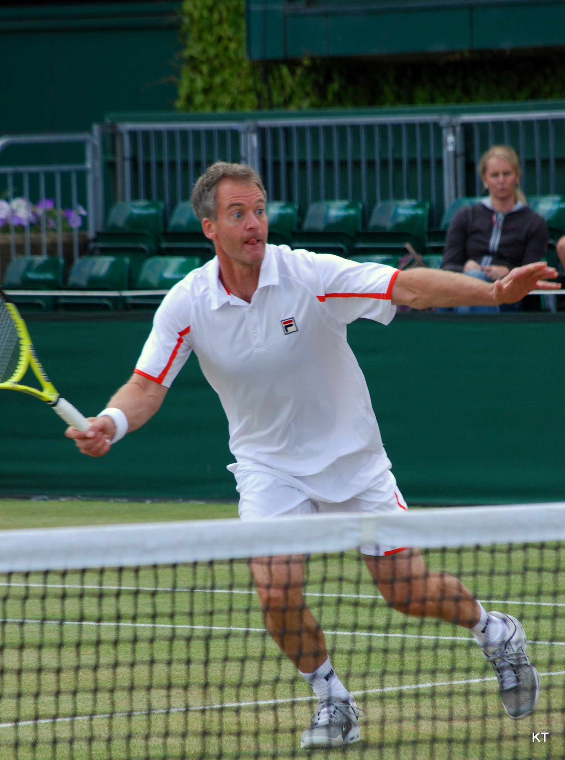 Senior Gentlemen's invitational doubles - Jeremy Bates & Anders Jarryd v Peter McNamara & Paul McNamee. Day 11 of Wimbledon 2011.